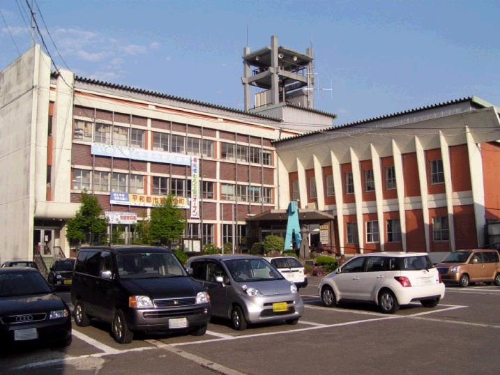 The town office of Funagata, a city in the prefecture of Yamagata in Japan